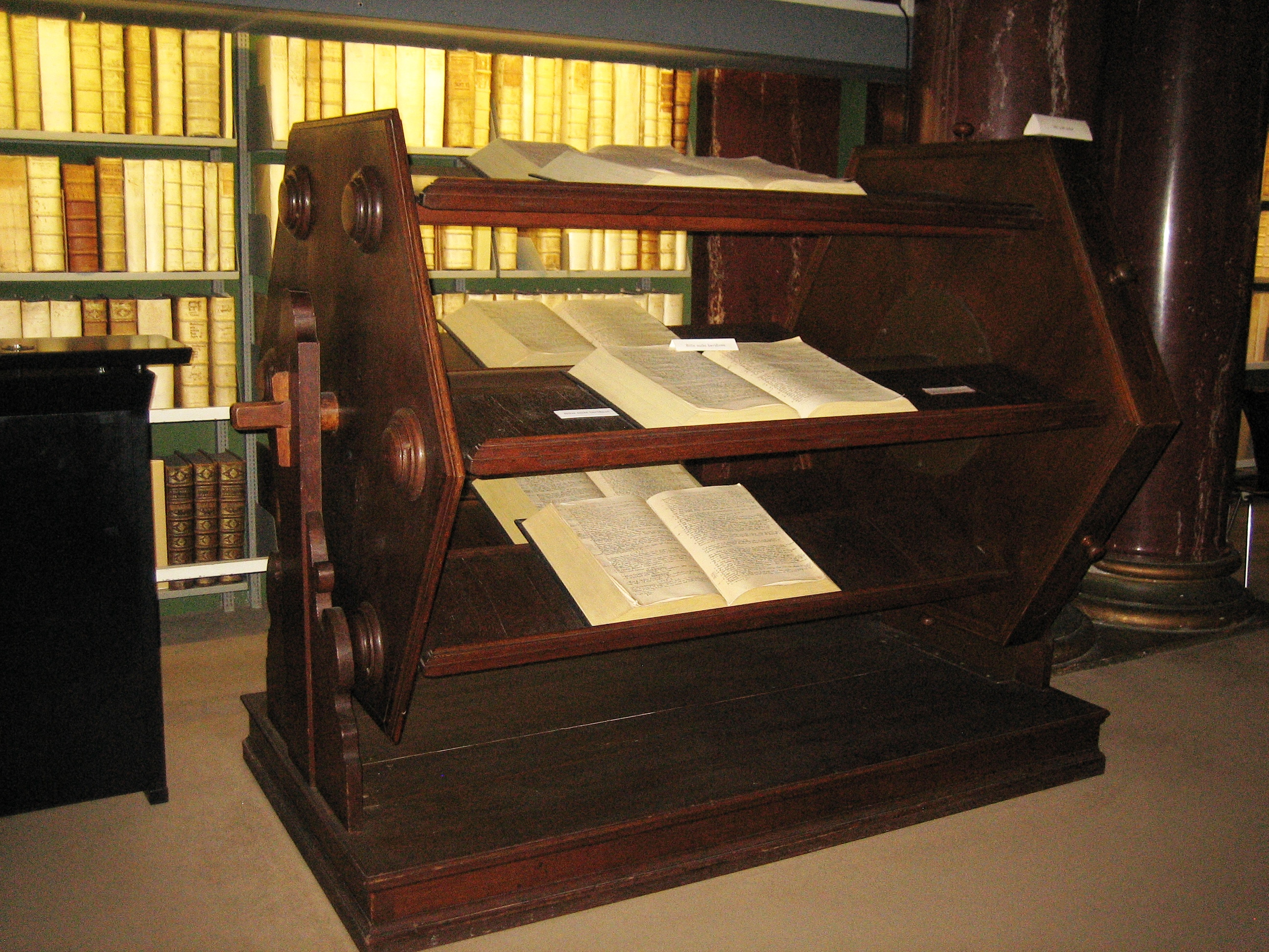 Book wheel, oak, built for Duke August after 1625.